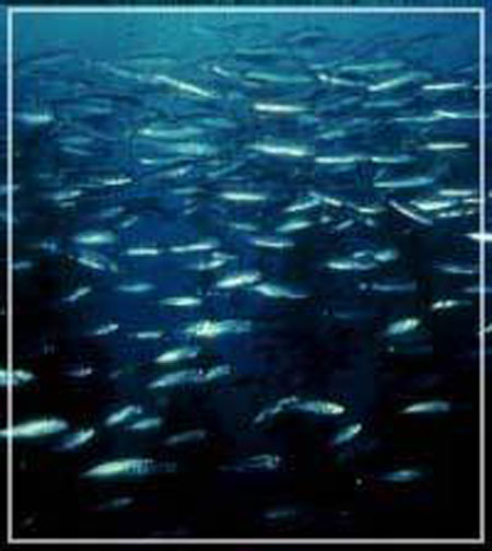 King mackerel are a schooling fish, often congregating in large numbers.